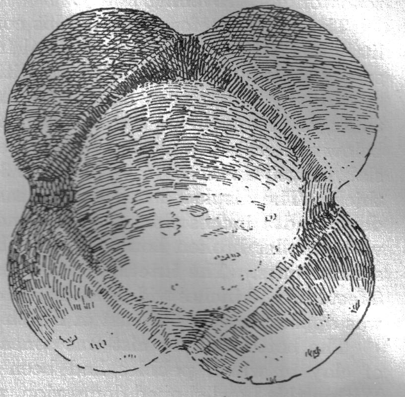 A carved-stone ball from Golspie, Scotland.